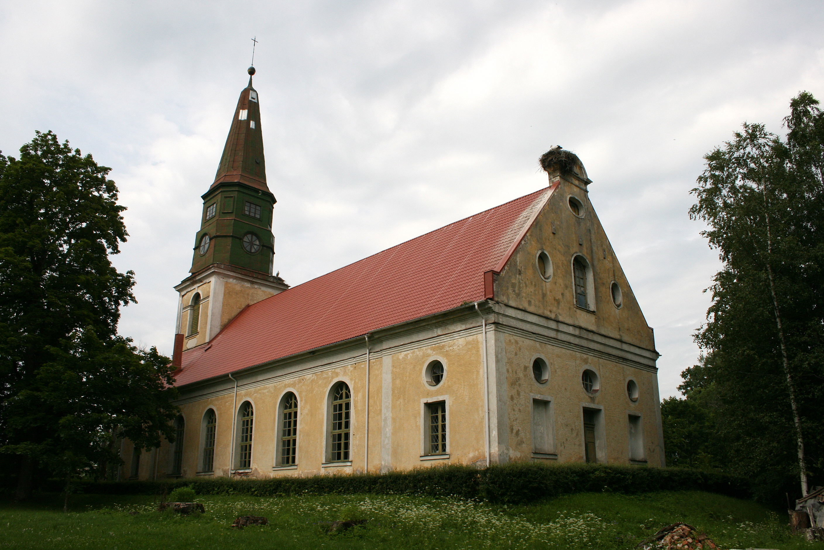 Suntaži Evangelical Lutheran ChurchLatviešu: Suntažu evaņģēliski luteriskā baznīca